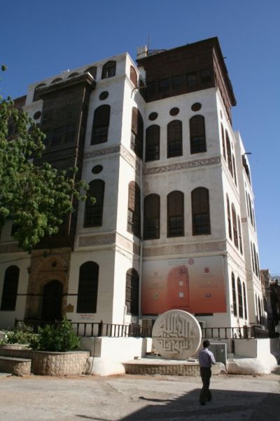 Naseef House, Al Balad, Jeddah.